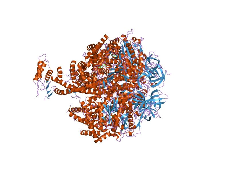 Cartoon representation of the molecular structure of protein registered with 2jdi code.